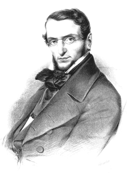 Hermann Martin Asmuss (1812–1859), professor of zoology at Dorpat (now Tartu)